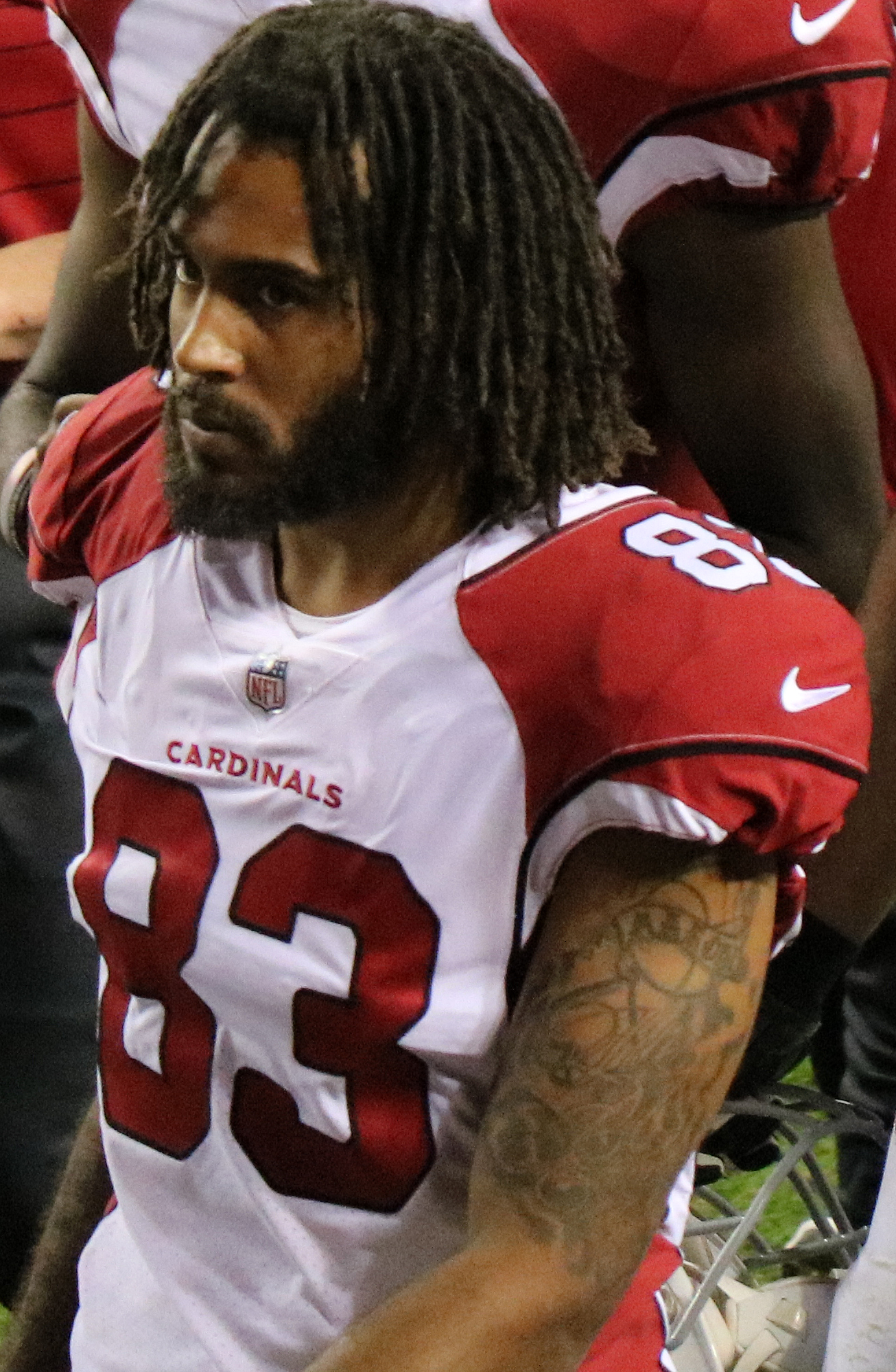 Aaron Dobson, a player on the National Football League.